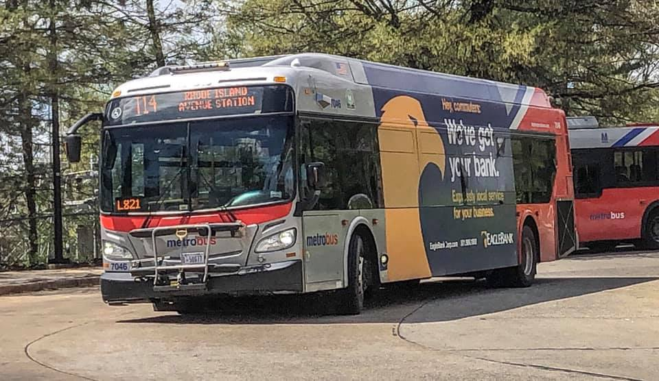 New Carrollton